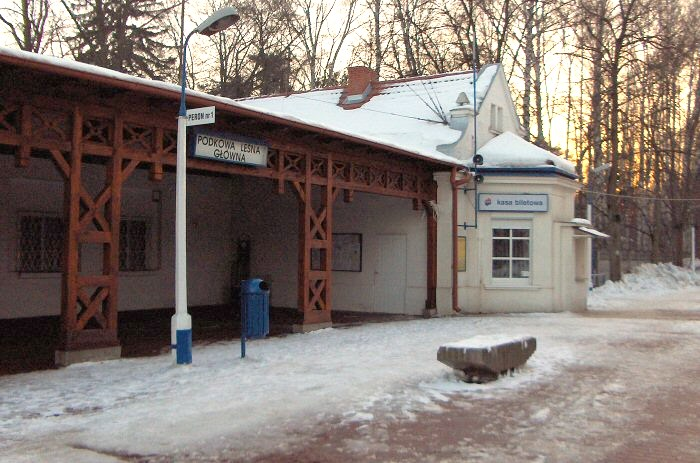 Picture of the WKD station (Podkowa Leśna Główna).